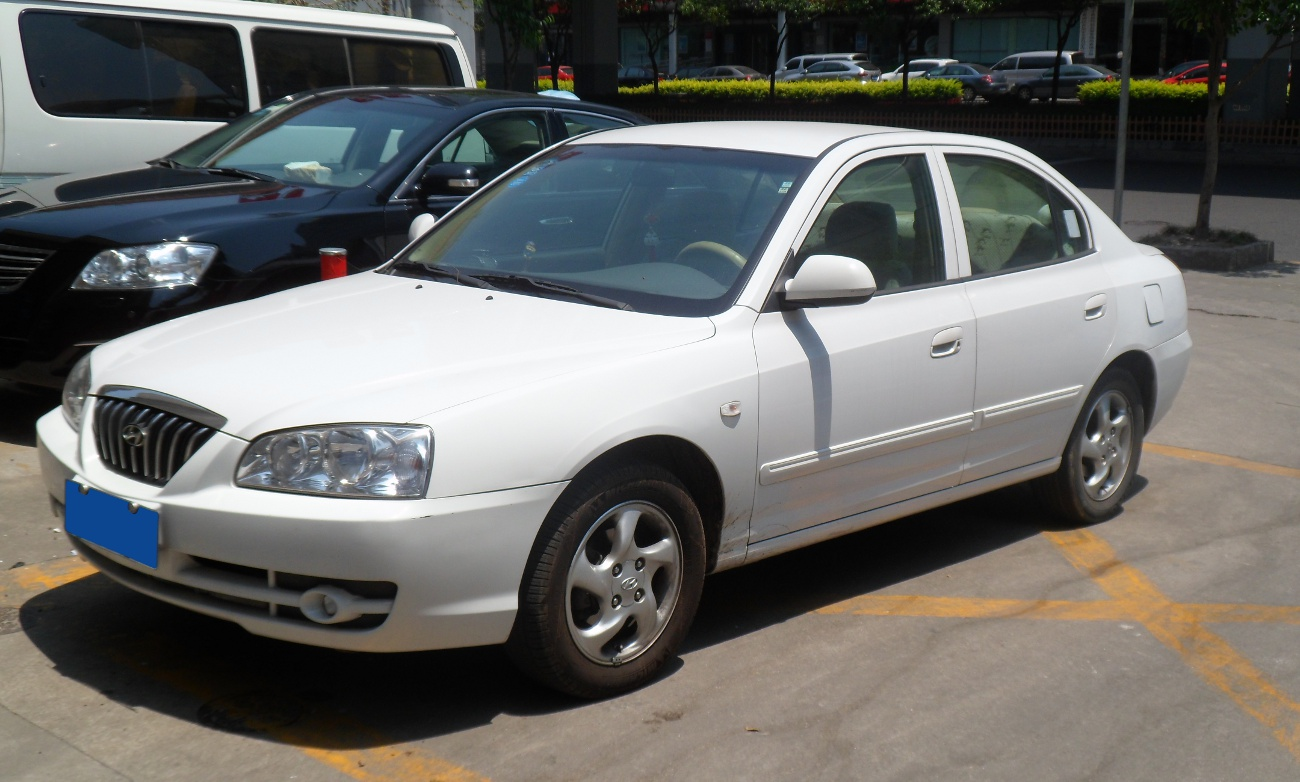 Hyundai Elantra XD photographed in Shanghai, China.